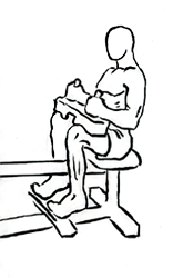 an exercise of calves